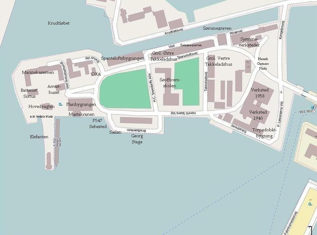 Nyholm at Naval Base Copenhagen